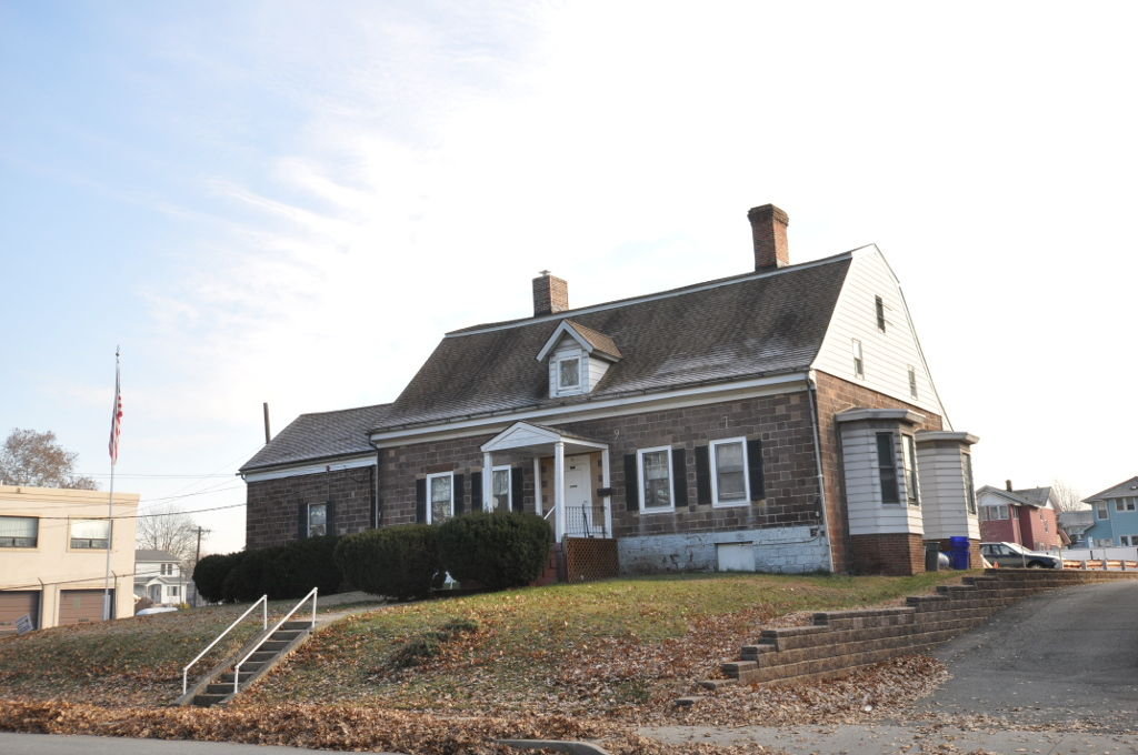 Jacob W. Van Winkle House, Lyndhurst, New Jersey. Now houses a Masonic Lodge.